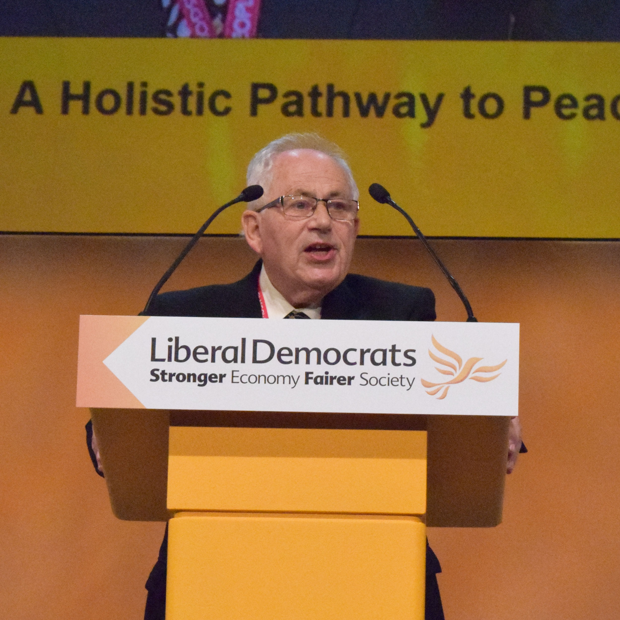 Monroe Palmer speaking at a Liberal Democrat conference in the Clyde Auditorium, Glasgow.